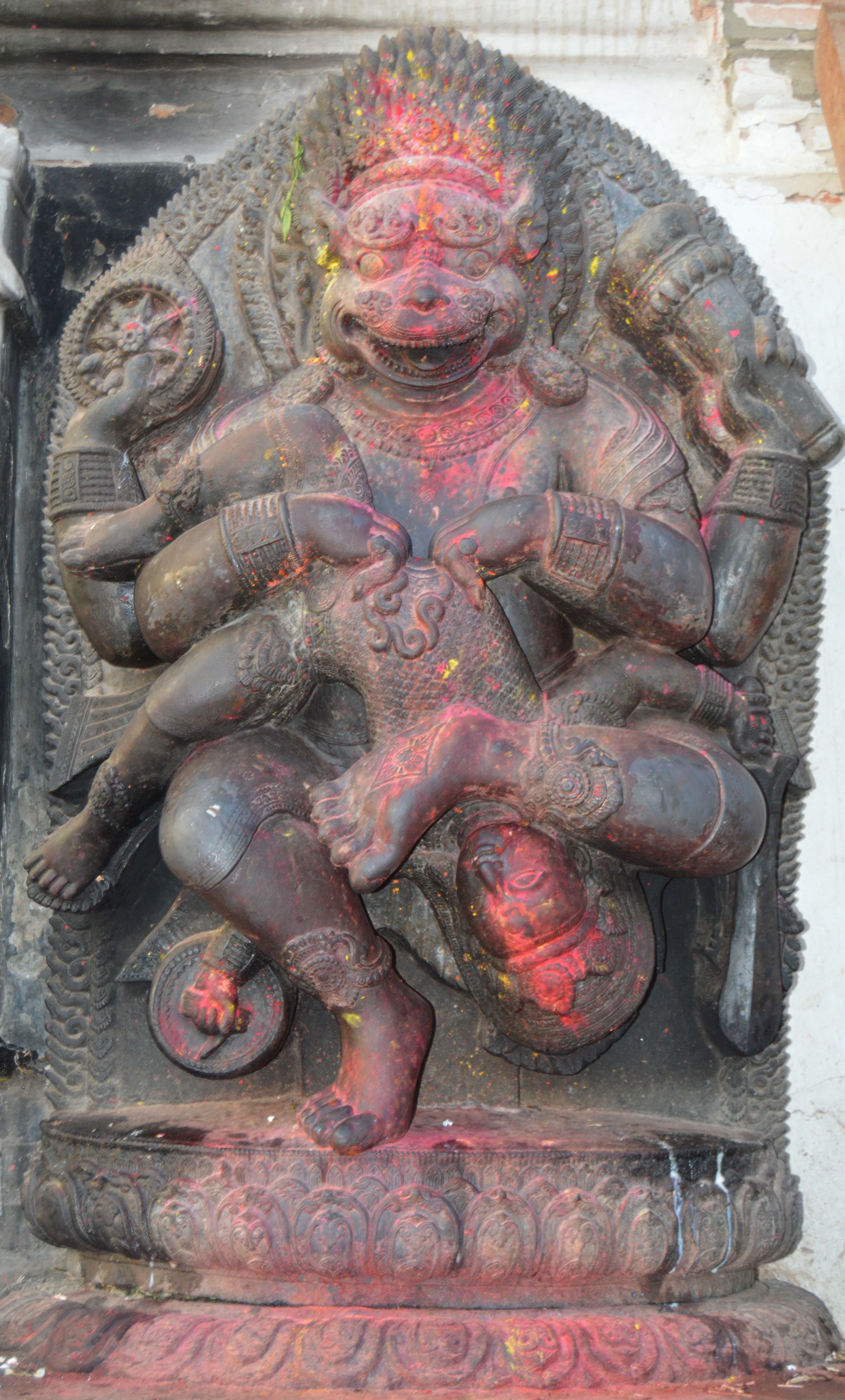 Bhaktapur Darbar